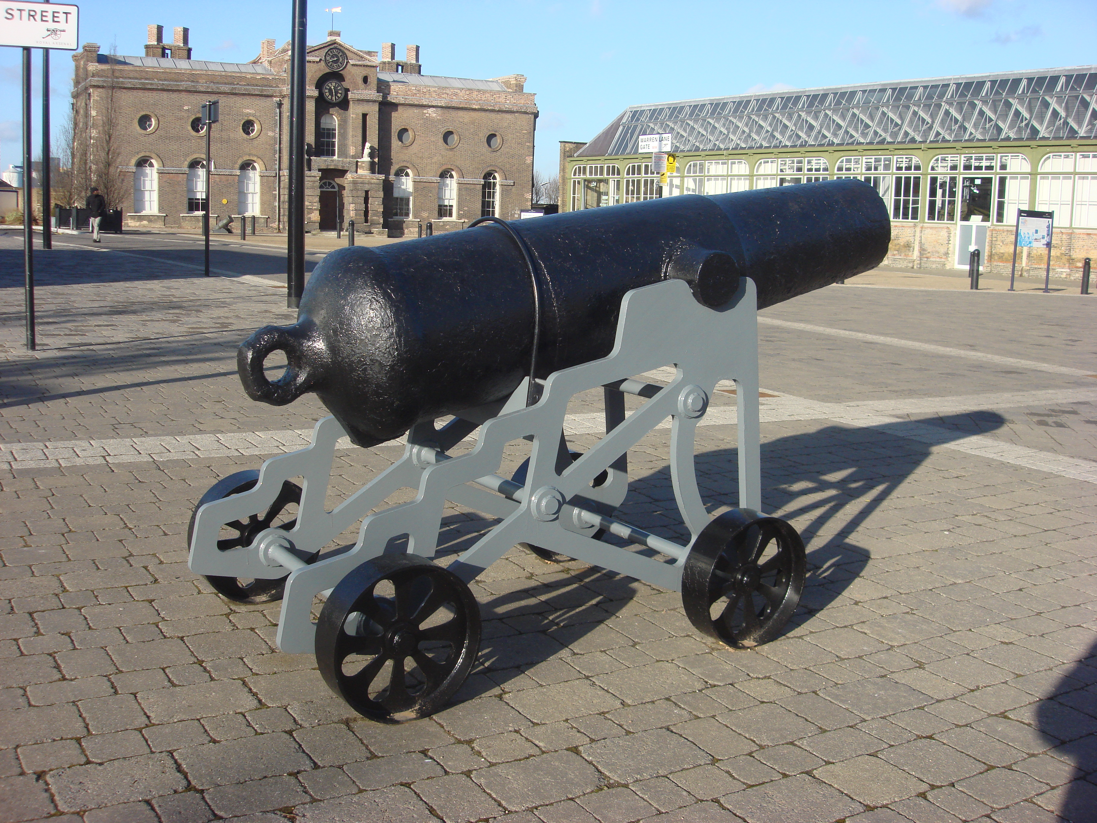 Royal Arsenal, Woolwich